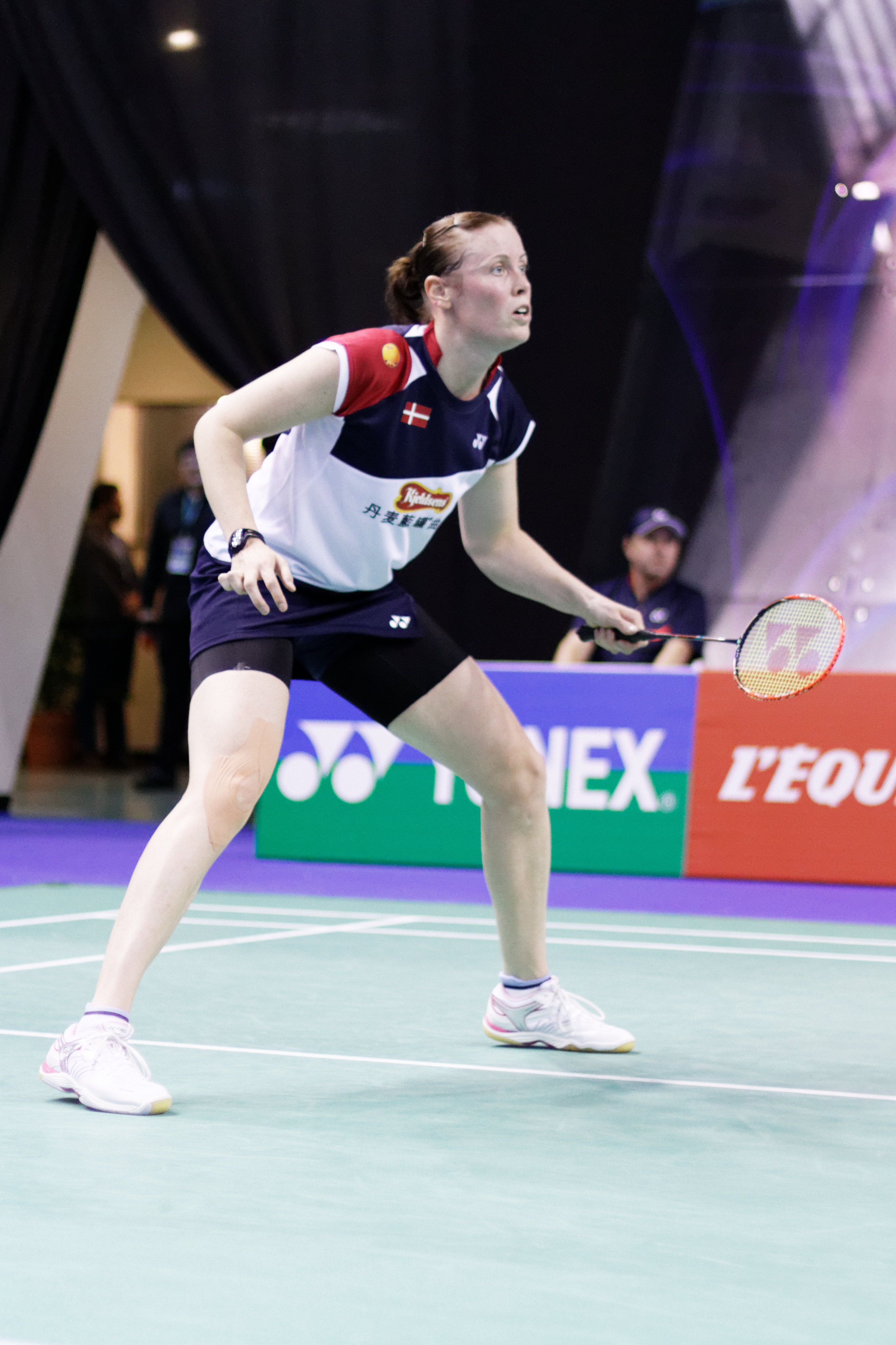 2013 French open. Women's doubles eightfinal. Johanna Goliszewski and Birgit Michels vs Christinna Pedersen and Kamilla Rytter Juhl.